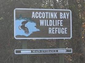 Accotink Bay Wildlife Refuge entrance sign; Fort Belvoir, Virginia